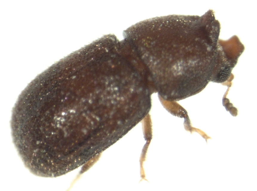 adult male of Cis bilamellatus? (or very near) from New Zealand